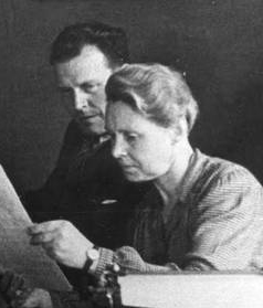 Danish resistance members Petra Petersen and Alfred Lunde editing the illegal paper Trods Alt in 1945